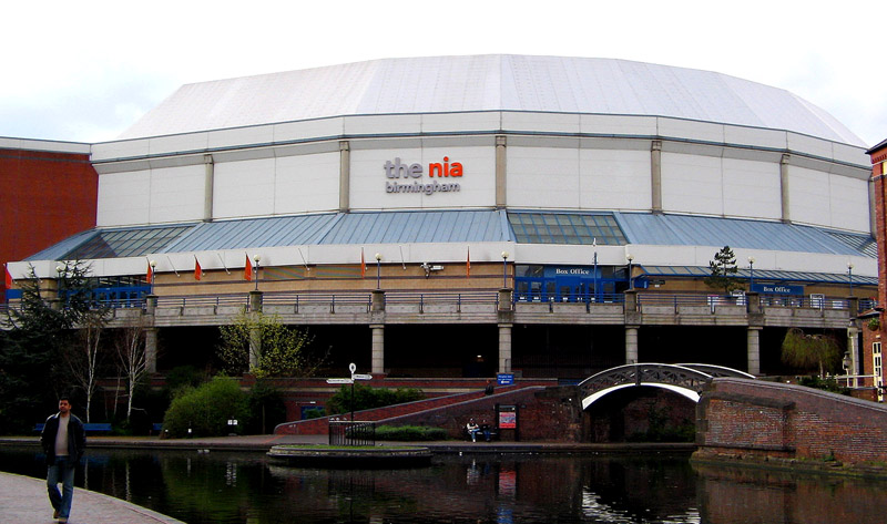 The National Indoor Arena in central Birmingham Photo by G-Man 2005